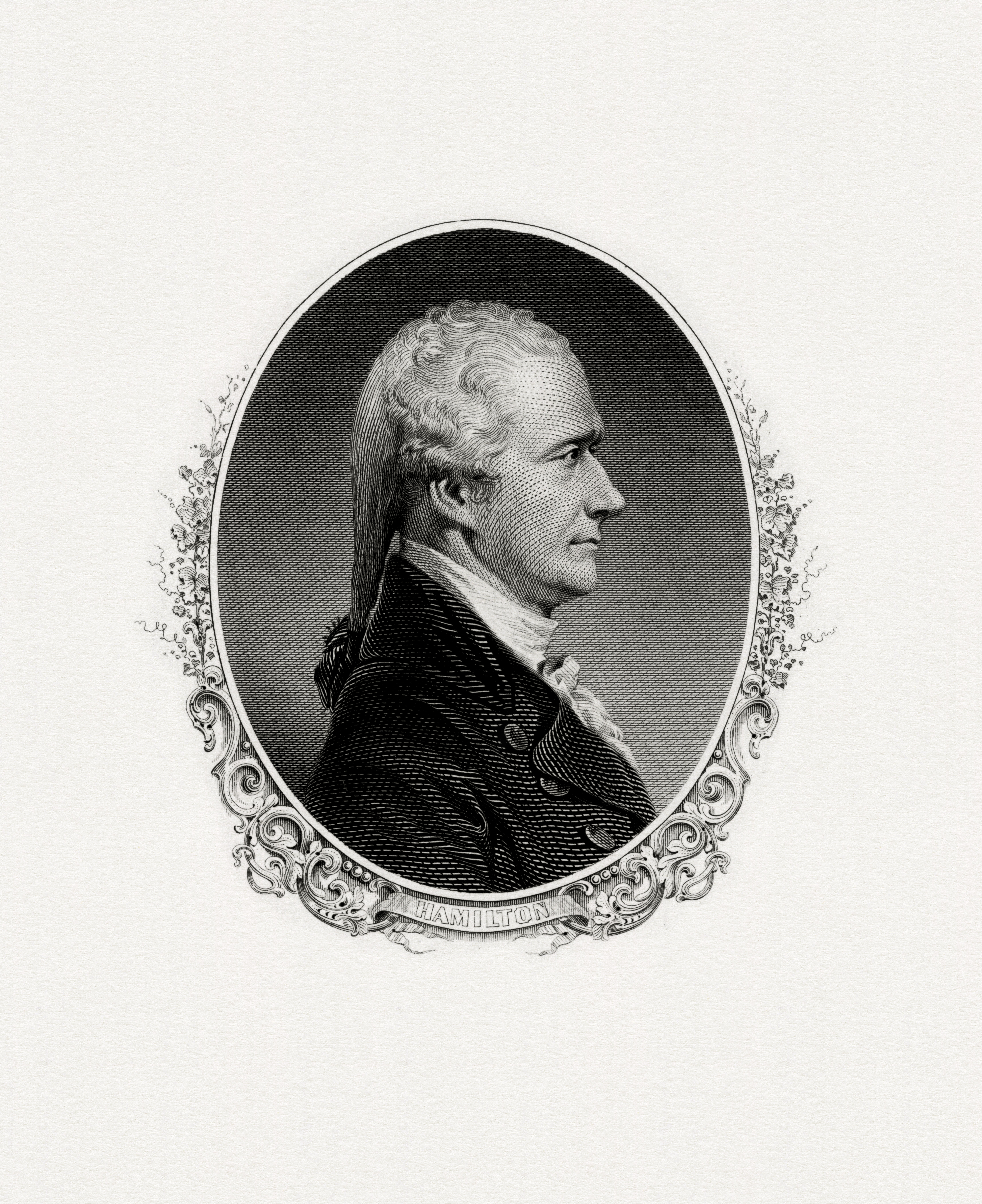 Engraved BEP portrait of U.S. Secretary of the Treasury Alexander Hamilton